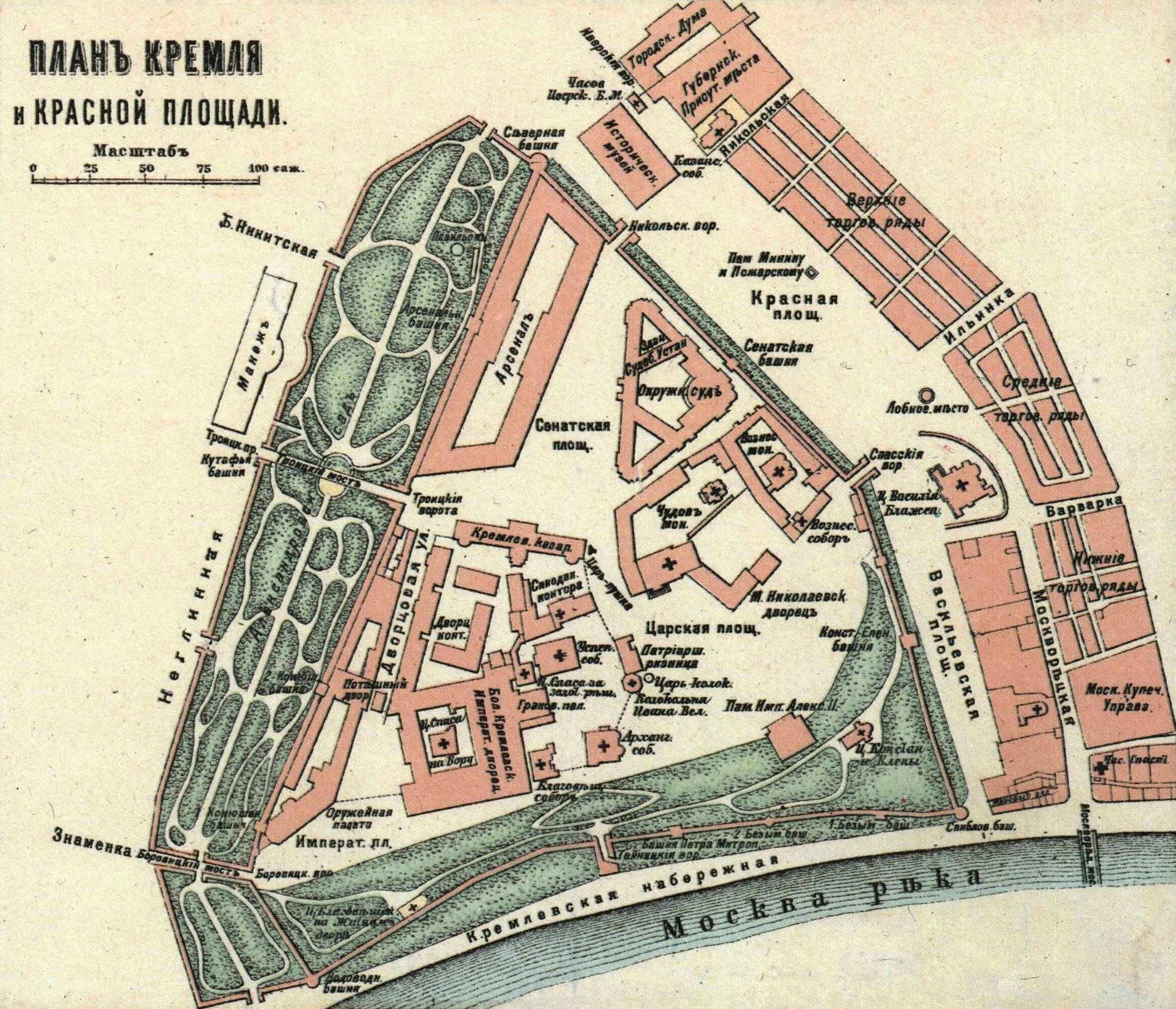 Plan of the Moscow Kremlin, 1917